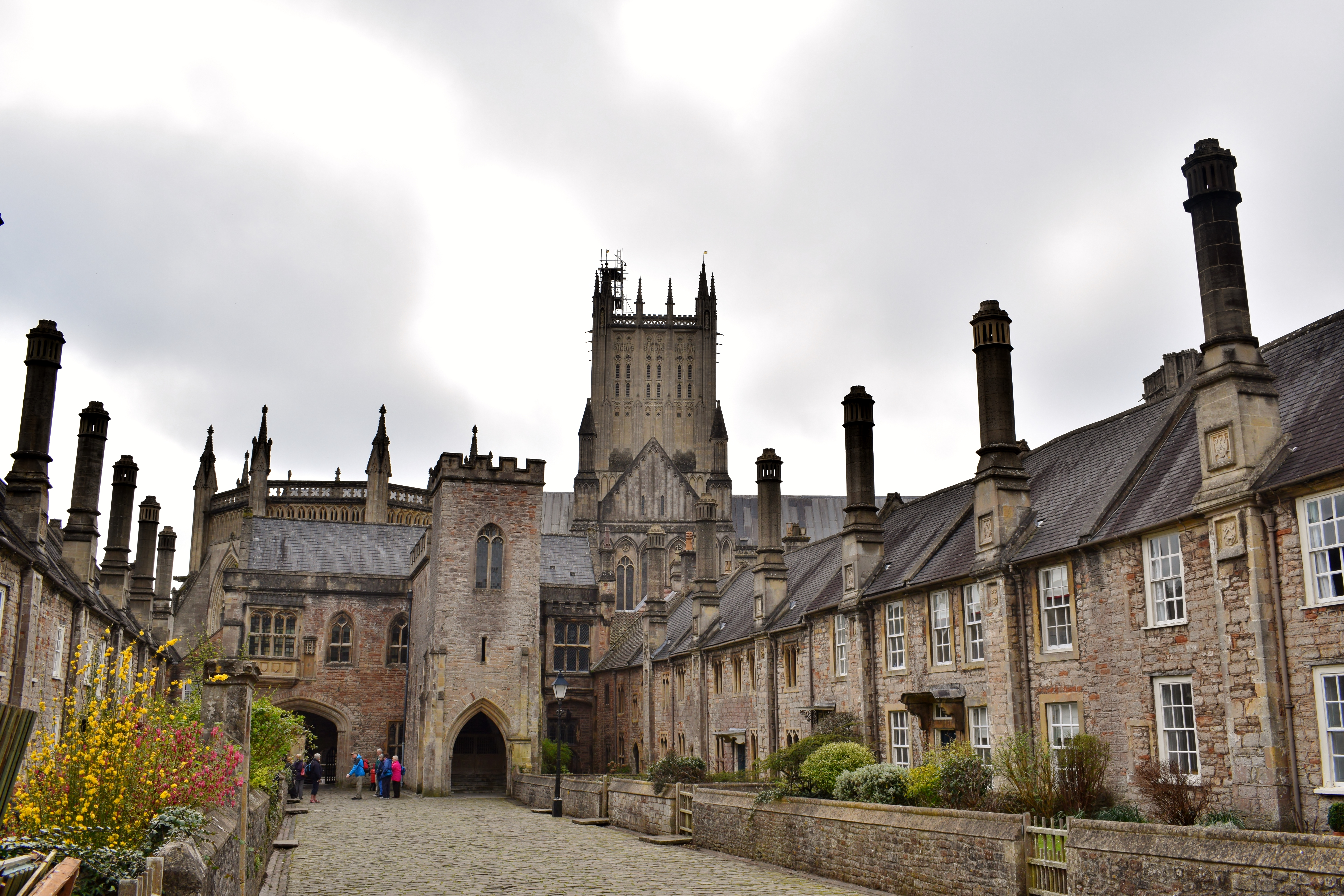 Wells.